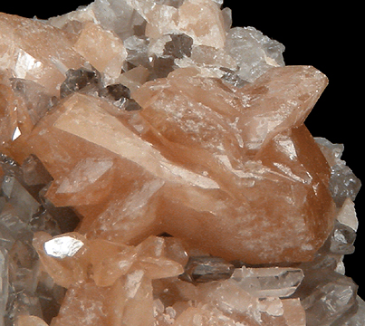 Monazite-(Ce), Quartz Locality: Siglo Veinte Mine (Siglo XX Mine; Llallagua Mine; Catavi), Llallagua, Rafael Bustillo Province, Potosí Department, Bolivia (Locality at ) Size: 3.2 x 1.5 x 1.5 cm. Monazite gets its name from the Greek word "monazein", which means "to be alone", in allusion to its isolated crystals and their rarity when first found. Monazite is usually found in granitic pegmatites, but these crystals are found in hydrothermal tin veins where is an absolute absence of Thorium (usually a trace element in Monazite). This is a remarkable, very well crystallized, very rare specimen consisting of sharp, lustrous, translucent, orange-pink, twinned crystals on Monazite-(Ce) measuring up to 9 mm on Quartz crystals on matrix. This piece is from the same mine for which this material was discovered along the Contacto and San Jose veins in this mine and was first described by Sam Gordon and Mark Bandy. These crystals also do a color change from indoor lighting to sunlight (more pink indoors).